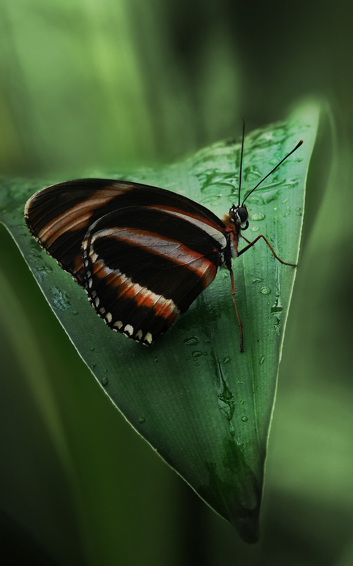 Heliconius comprise a colorful and widespread butterfly genus distributed throughout the tropical and subtropical regions of the Americas. As shown Dryadula phaetusa